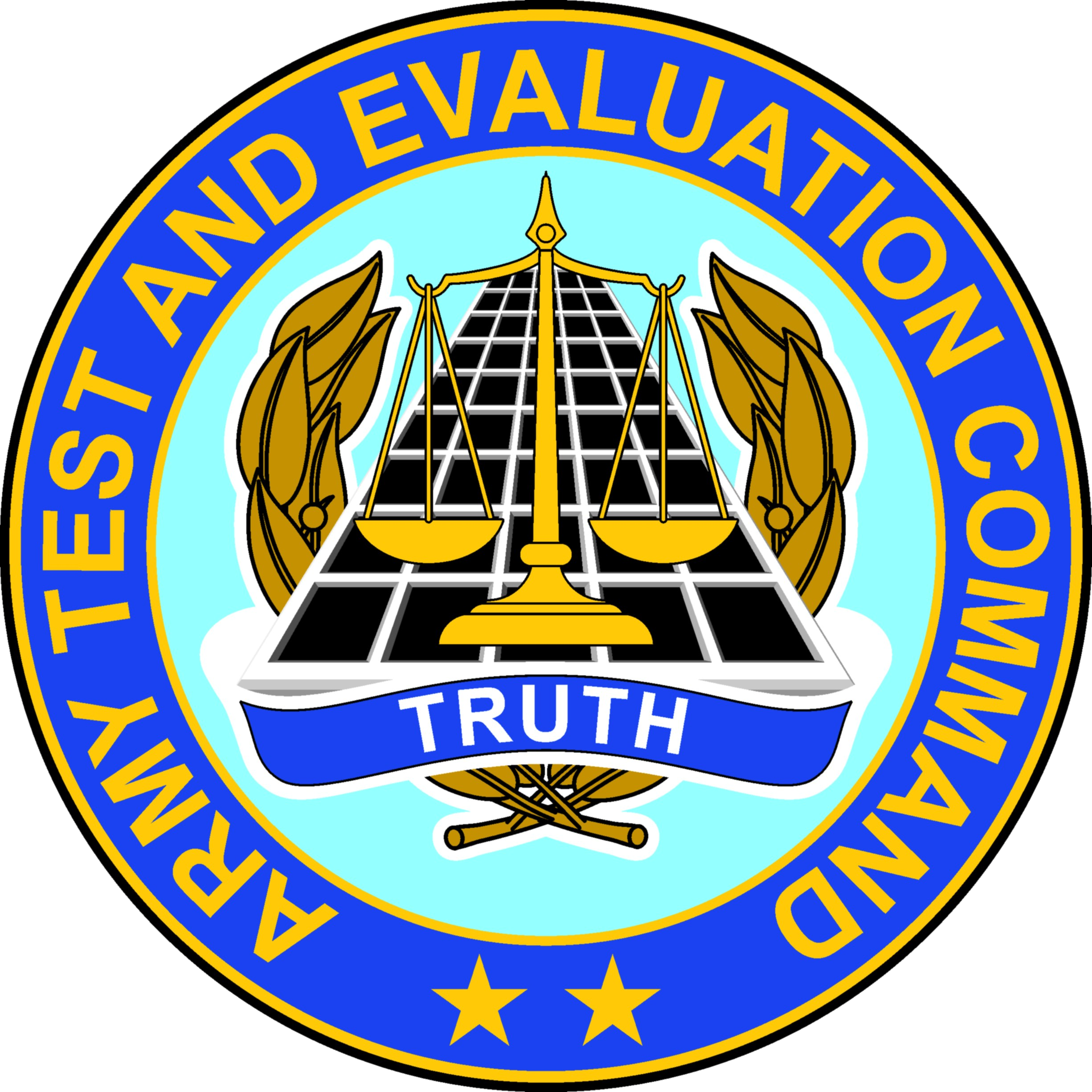 U.S. Army Test and Evaluation Command logo